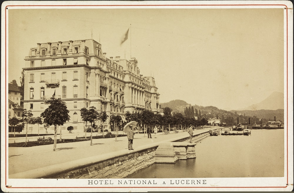 Fotografie : Albumin-Abzug, auf Karton montiert